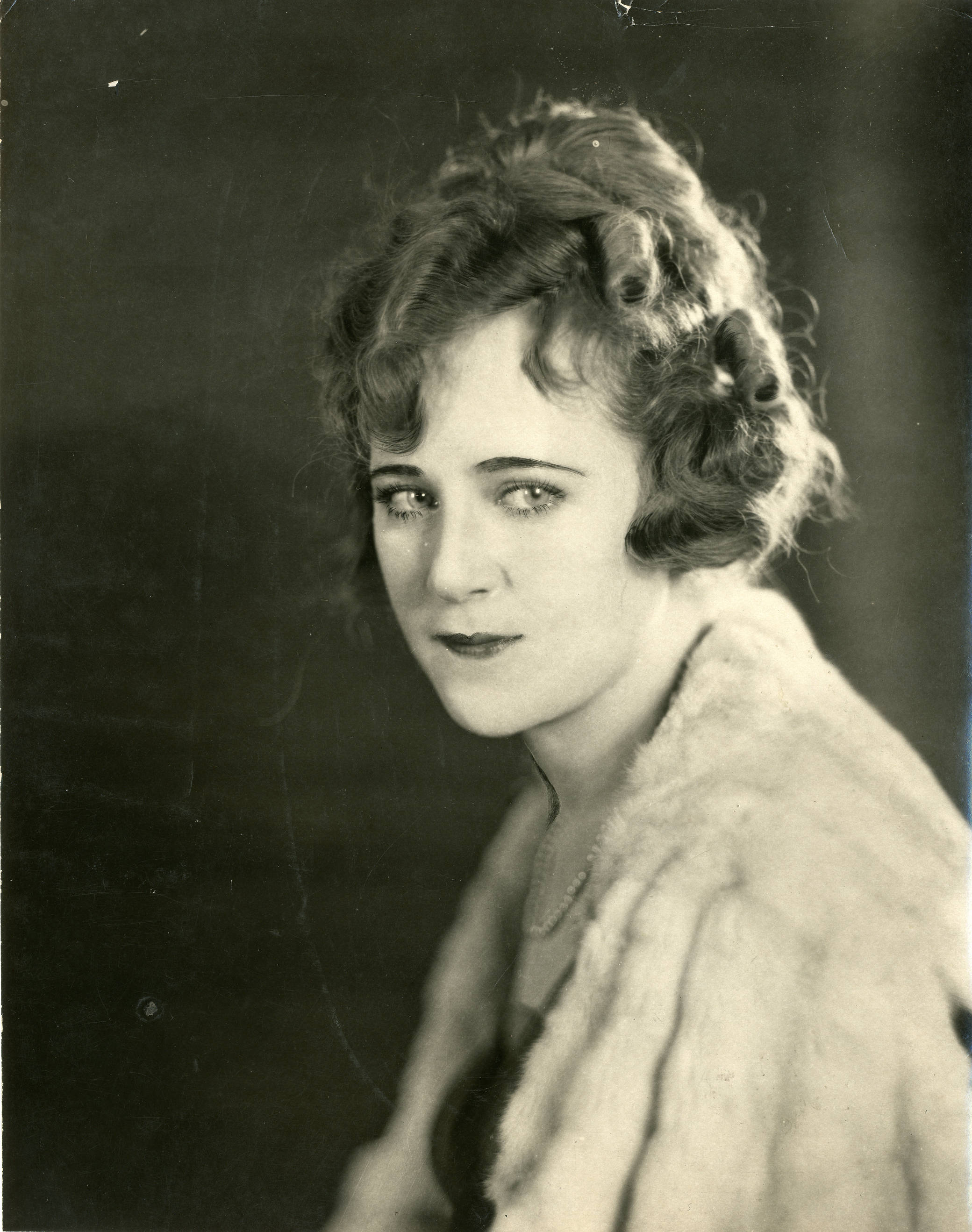 Silent film actress Jean Calhoun. Subjects: actresses